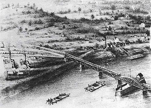 Bird's-eye view of the first bridge spanning the Mississippi River from Rock Island to Davenport, Iowa; the Davenport side is at the upper part of the picture